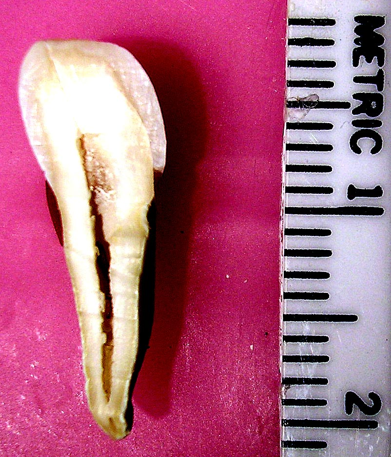 Cross-section of an anterior tooth